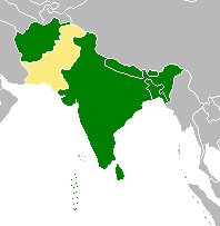 2015 SAFF Championship participating countries